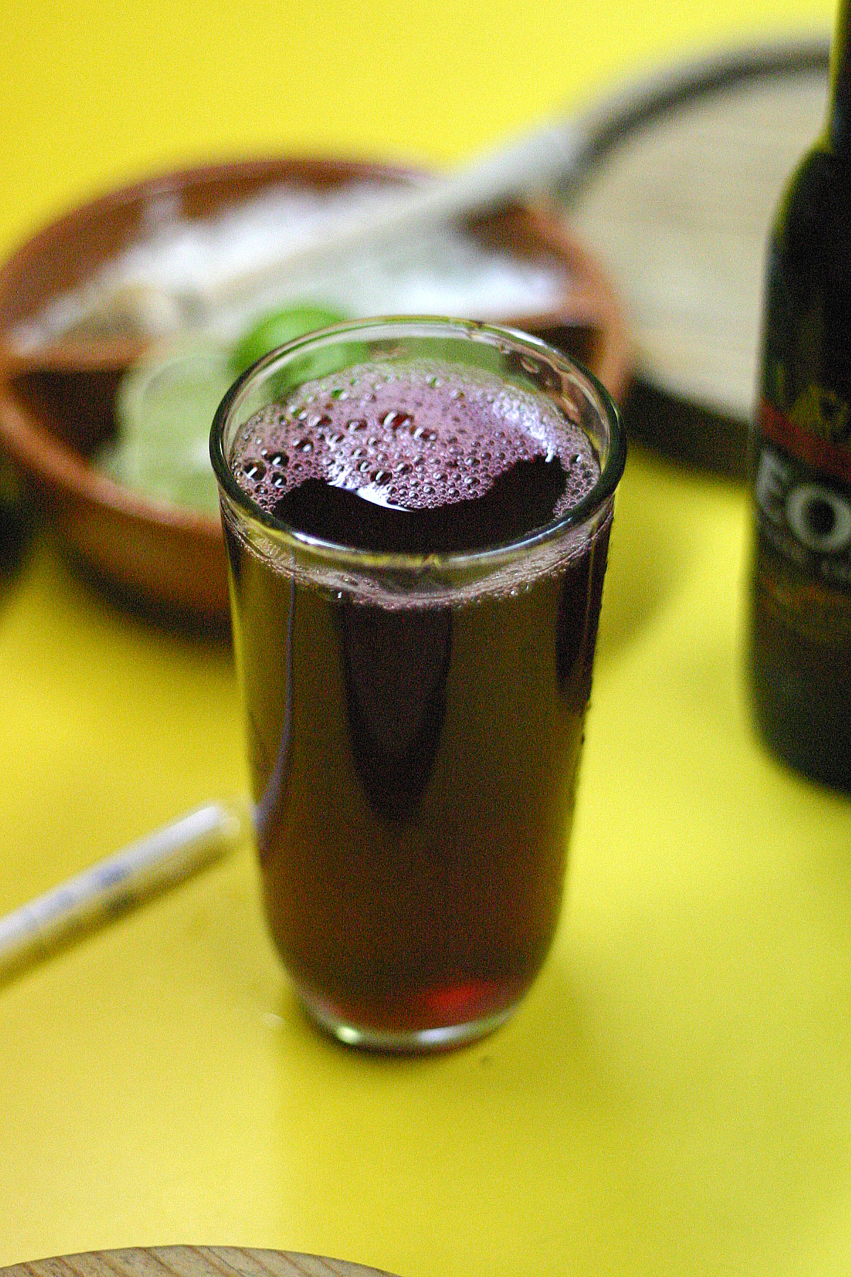 A glass of Agua de Jamaica (Cold Hibiscus Tea) in a restaurant in Cuernavaca, Mexico, December 2006